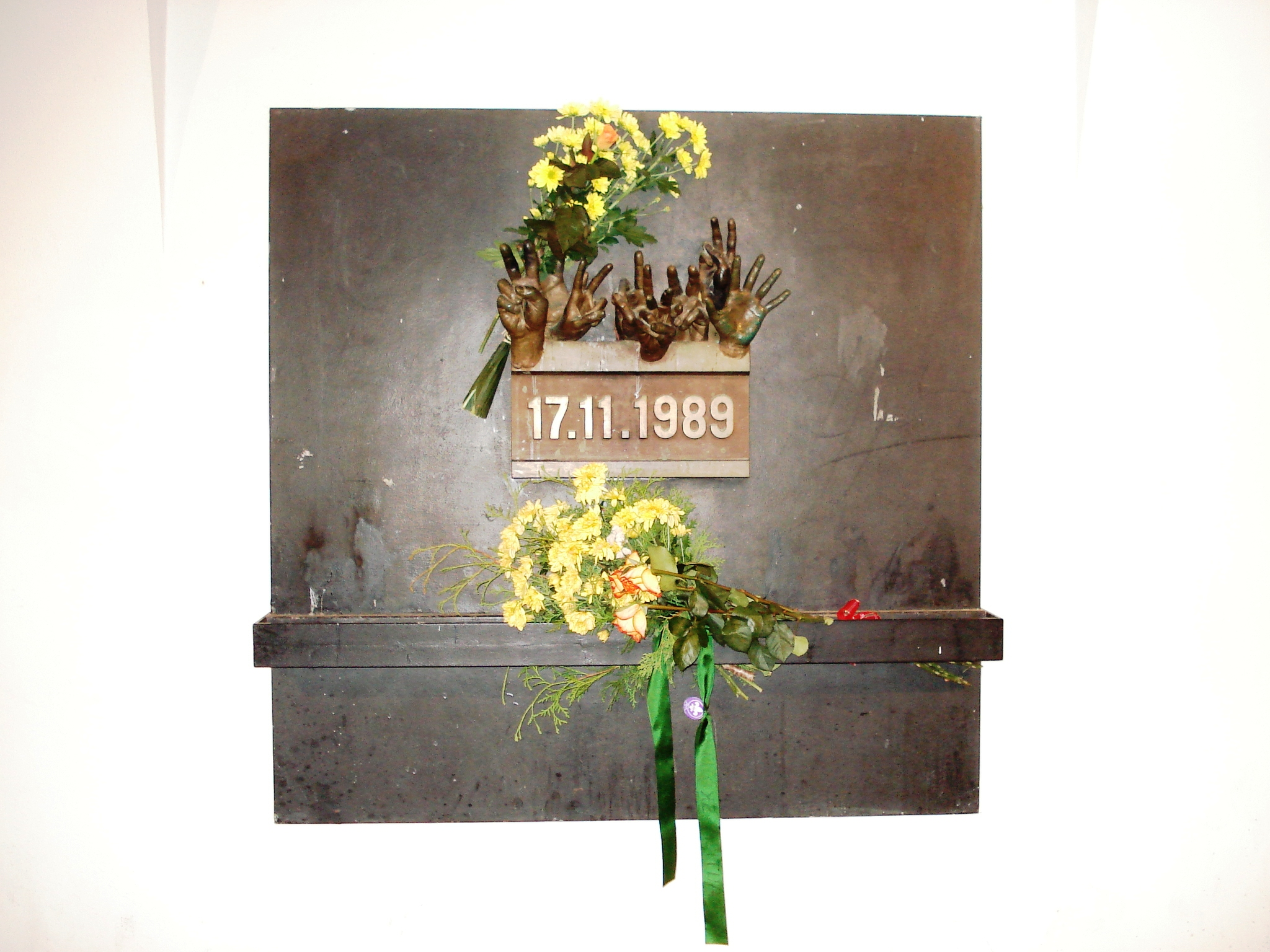 Monument to the student manifestations of November 17th in Prague, repressed by the police, they led to the fall of communism in Czechoslovakia.